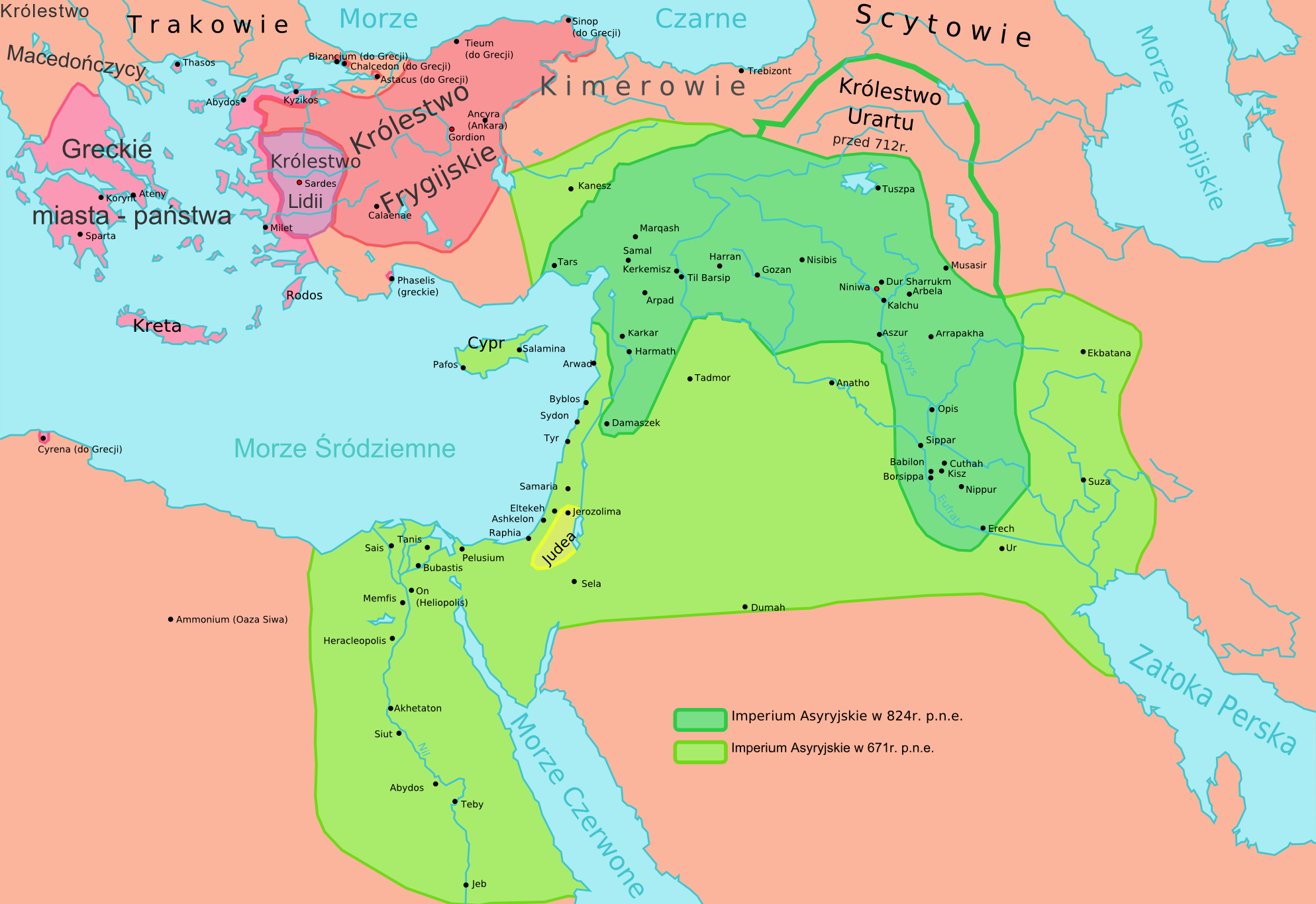 Map of the Assyrian Empire